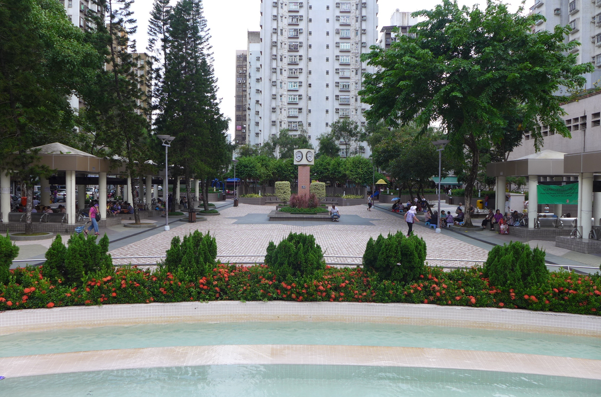 Yuen Long Jocket Club Town Square